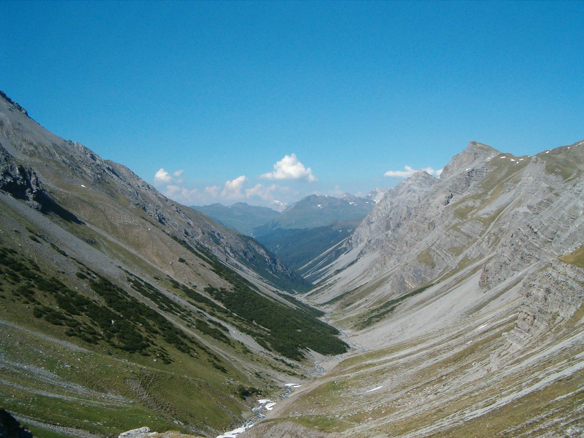 Welschtobel-Valley at Arosa/Switzerland